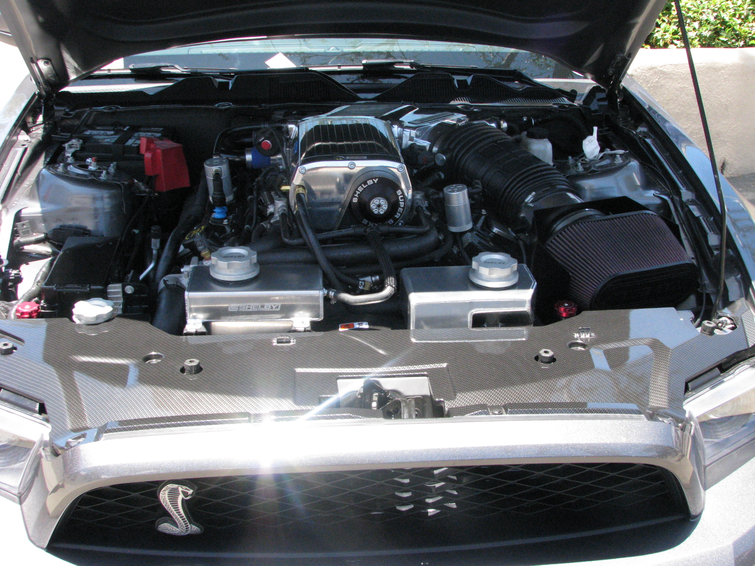 Shelby 1000 engine at Barrett Jackson OC 2012